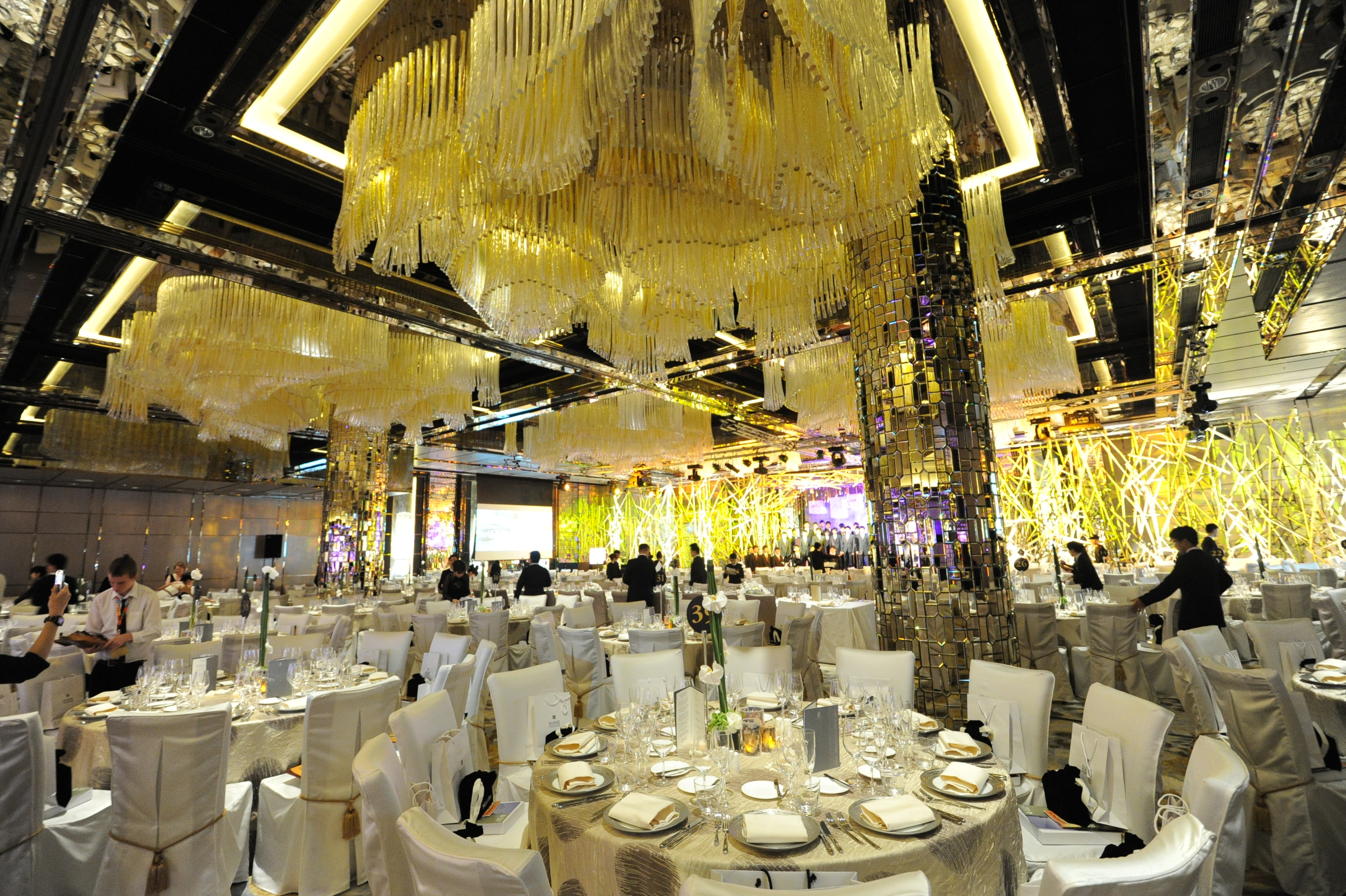 Extravagant Simplicity Crossroads Foundation Fundraising Gala 2011